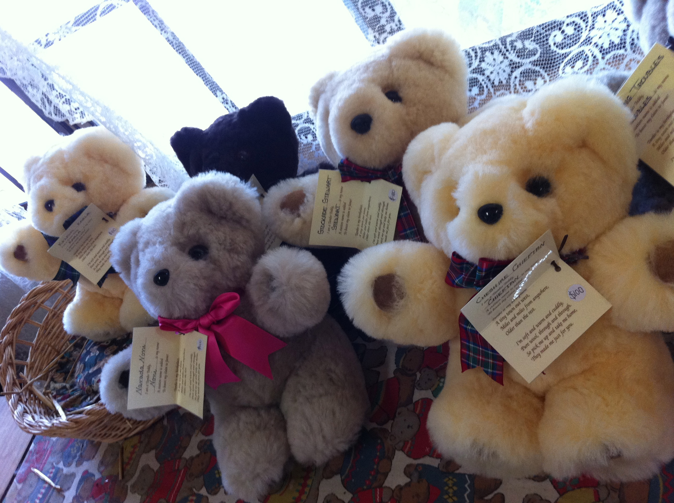 Sample of the Tambo Teddys, produced in a locally run workshop in the town of Tambo.